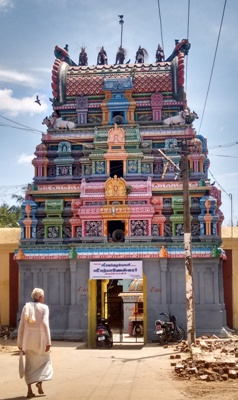 Etirkolpadi airavatesvarar temple மேலைத்திருமணஞ்சேரி எதிர்கொள்பாடி ஐராவதேஸ்வரர் கோயில்